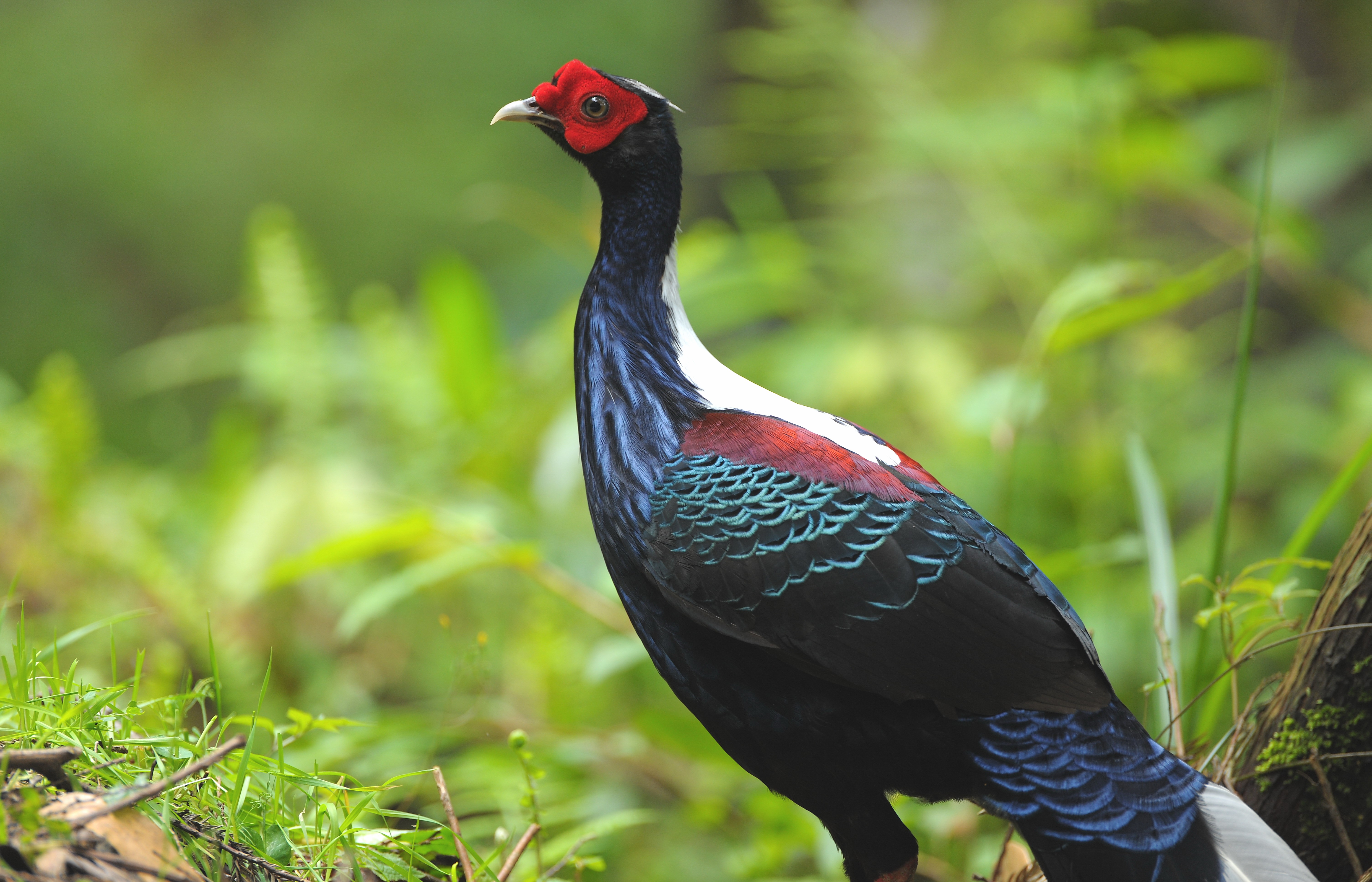 Male Swinhoe's Pheasant (Lophura swinhoii)